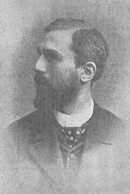 Carlo Fornasini's very old photo.